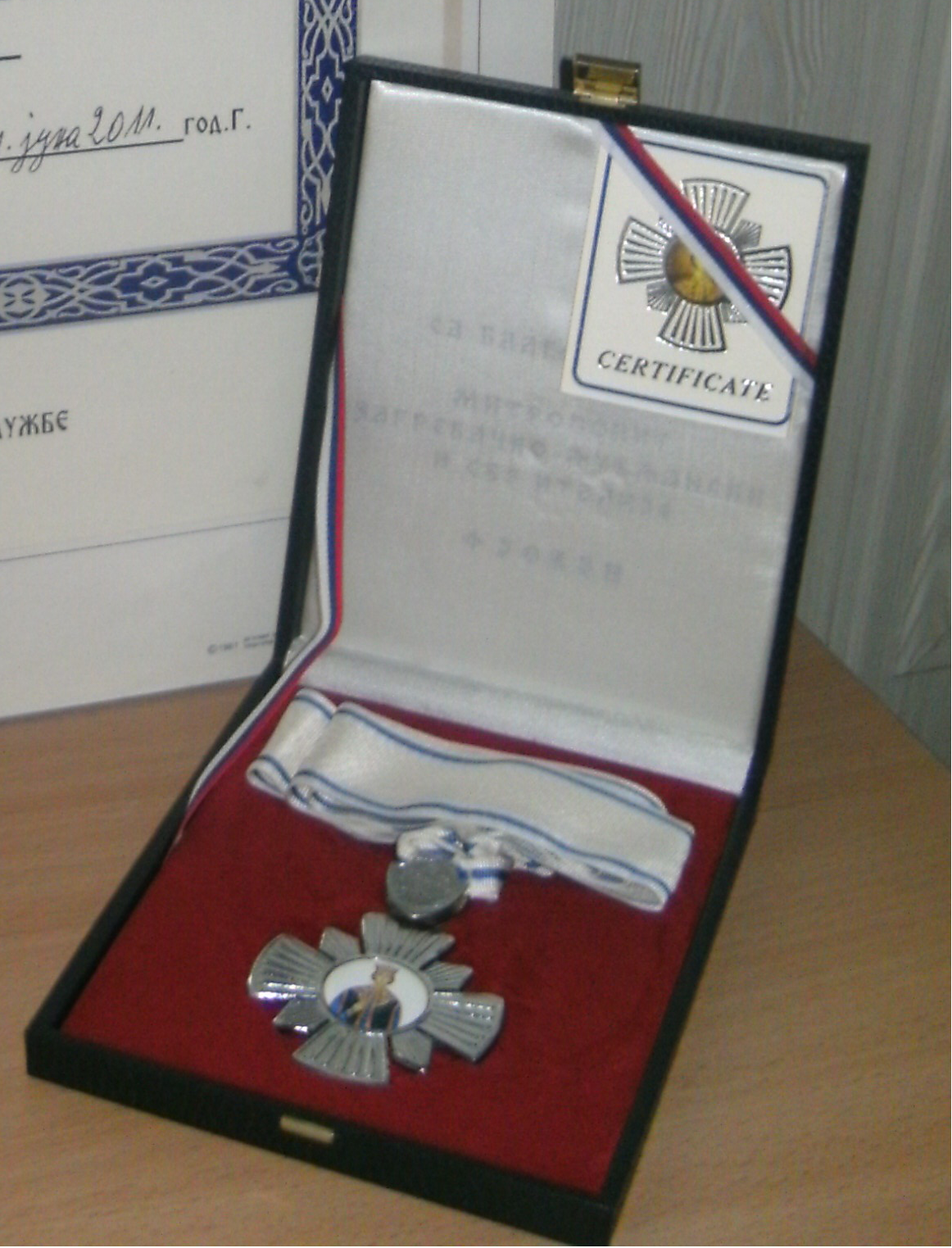 Medal of Order of Kantakuzina Katarina Branković